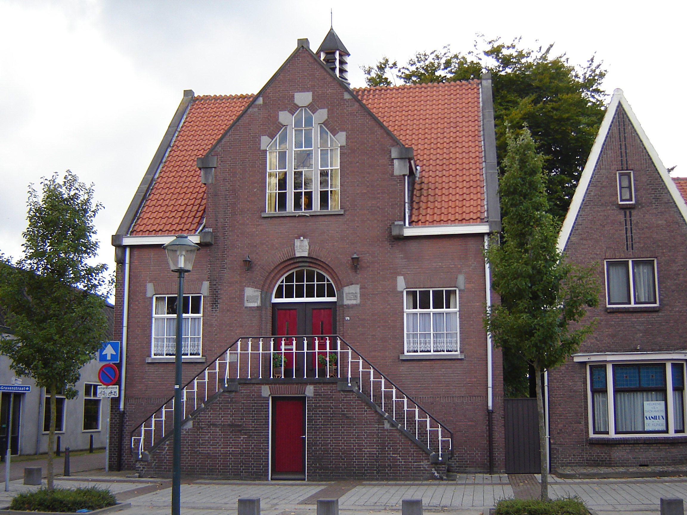 Former town hall of Clinge. Clinge, Hulst, Zeeland, the Netherlands